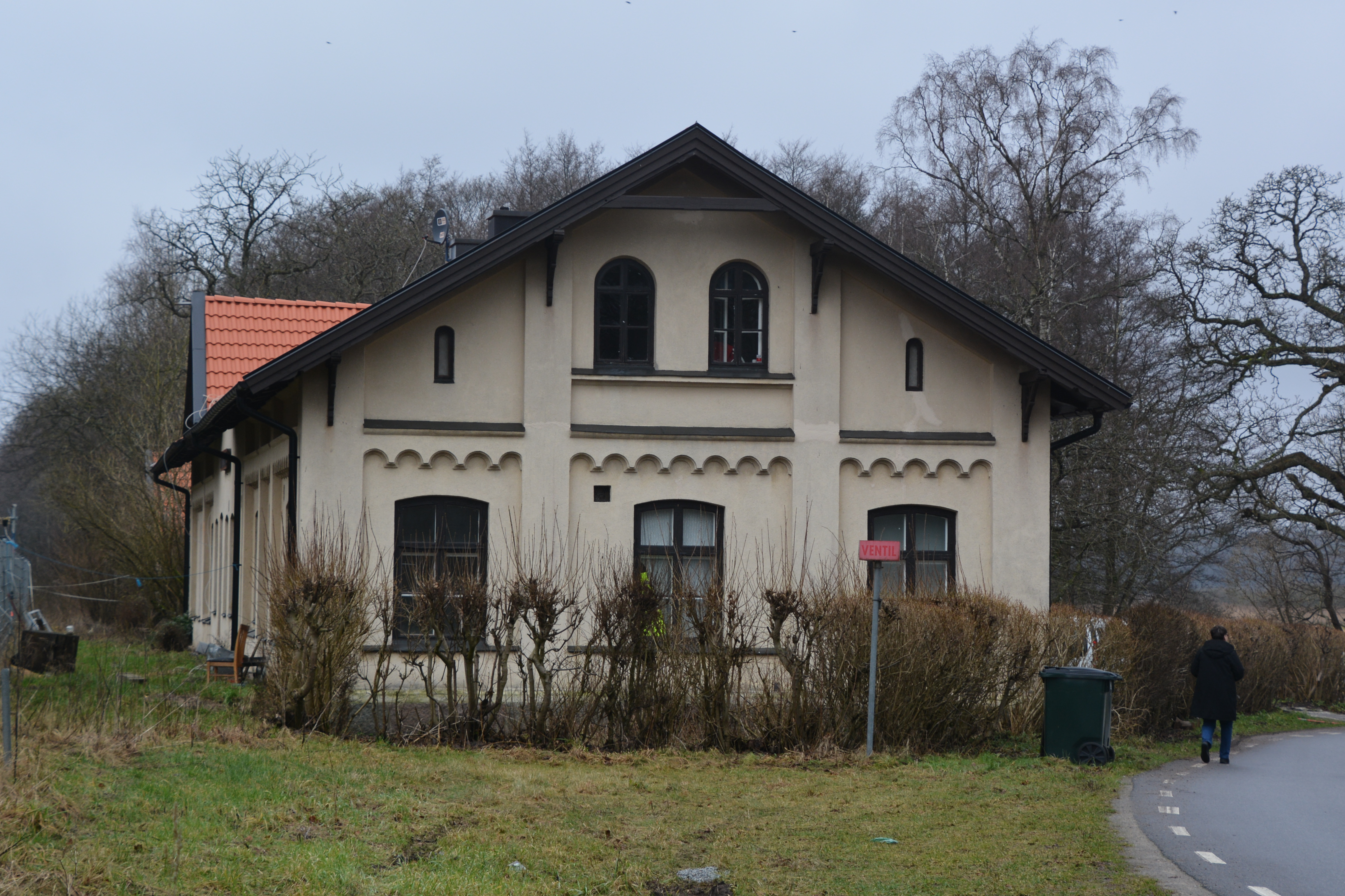 Railway station Börringe, Skåne, Sweden